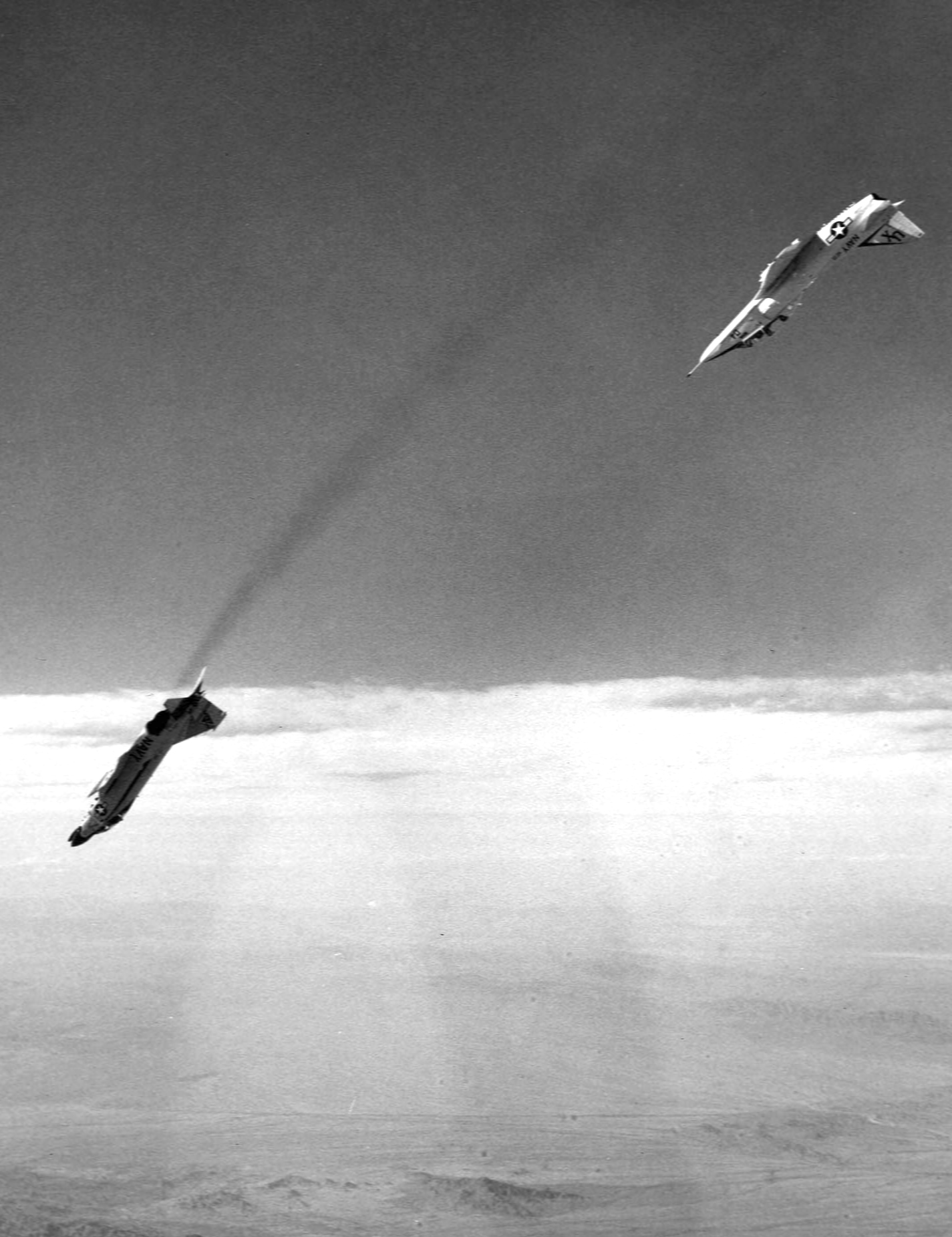 A U.S. Navy Douglas TA-4J Skyhawk of Composite Squadron VC-13 "Saints" pictured engaging in air combat maneuvering with a McDonnell F-4N Phantom II of Fighter Squadron VF-301 near Marine Corps Air Station Yuma, Arizona (USA), in 1979.